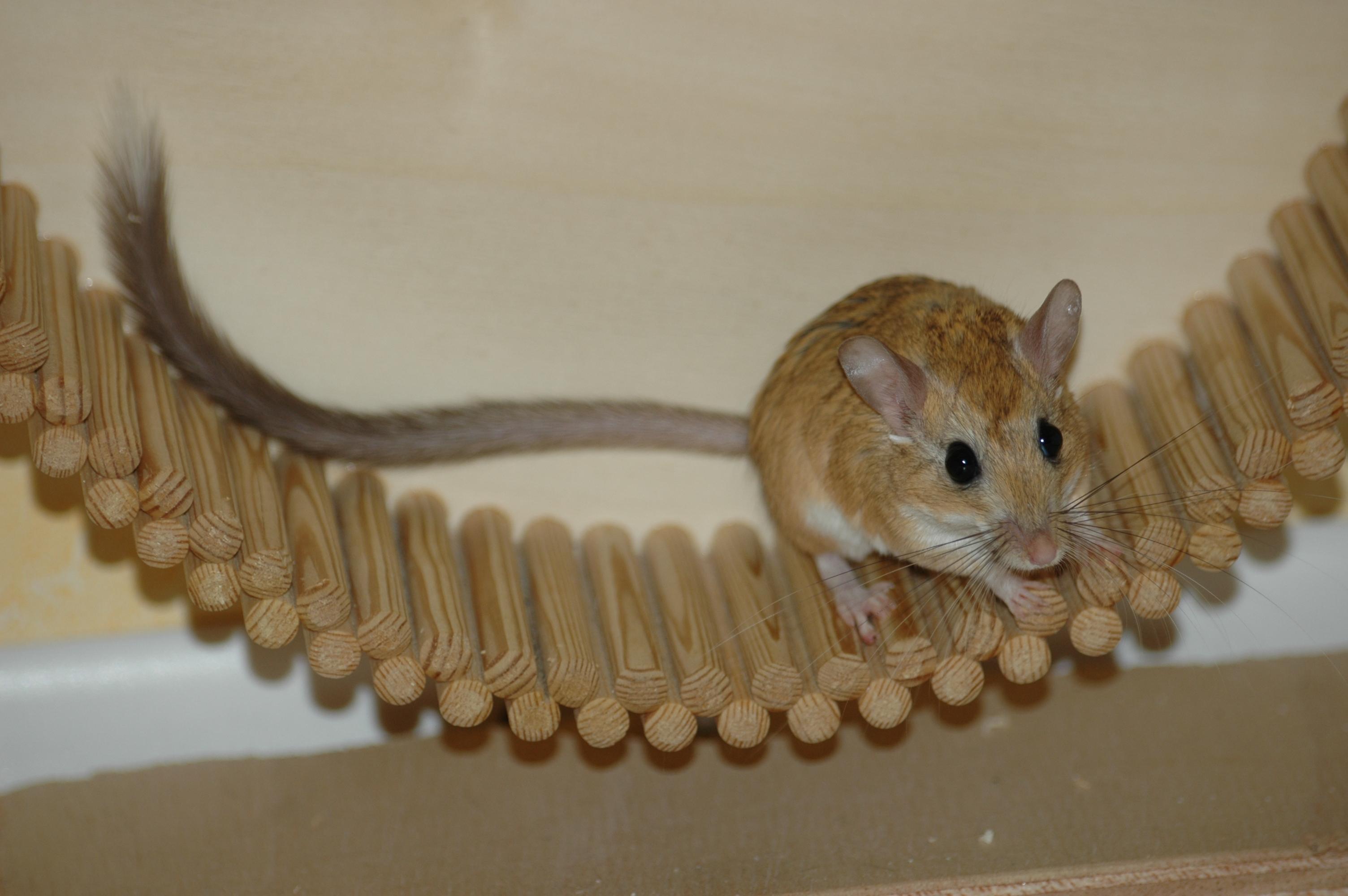 Racemouse (Sekeetamys calurus), 55294 Bodenheim, Germany